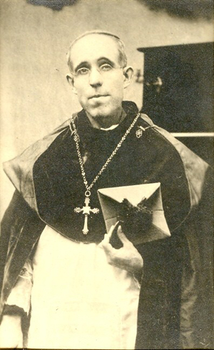 Leonardo Castellanos y Castellanos (1862-1912), when he was bishop of Roman Catholic Diocese of Tabasco, México (between 1908 and 1912)